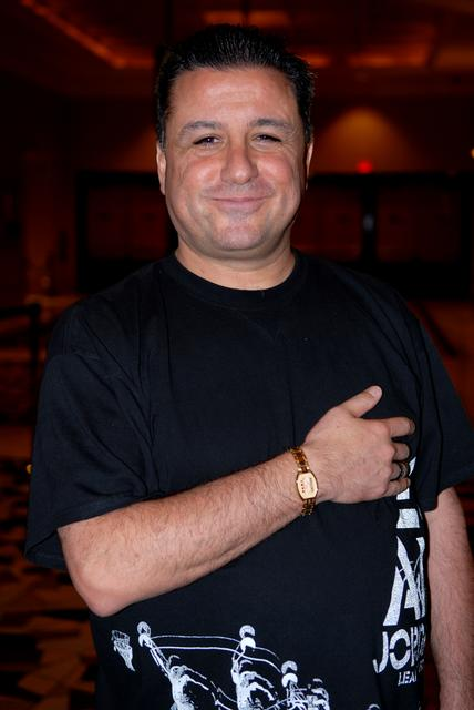 Eli Elezra after the win of his first bracelet 2007